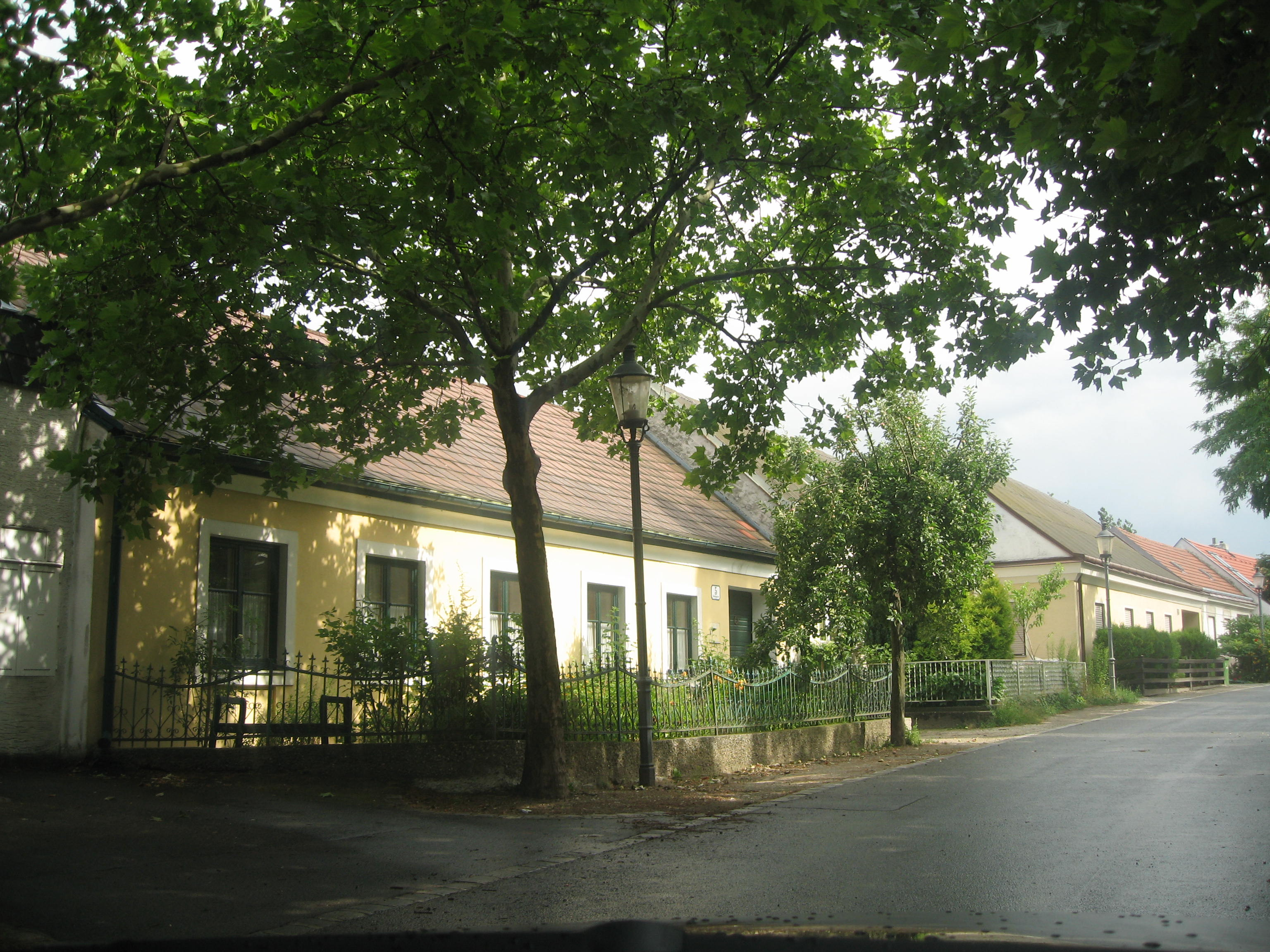 Old houses in Lobaugasse, Aspern, Vienna, Austria. Photo by Ferdinand h (German Wikipedia), July 12, 2007.